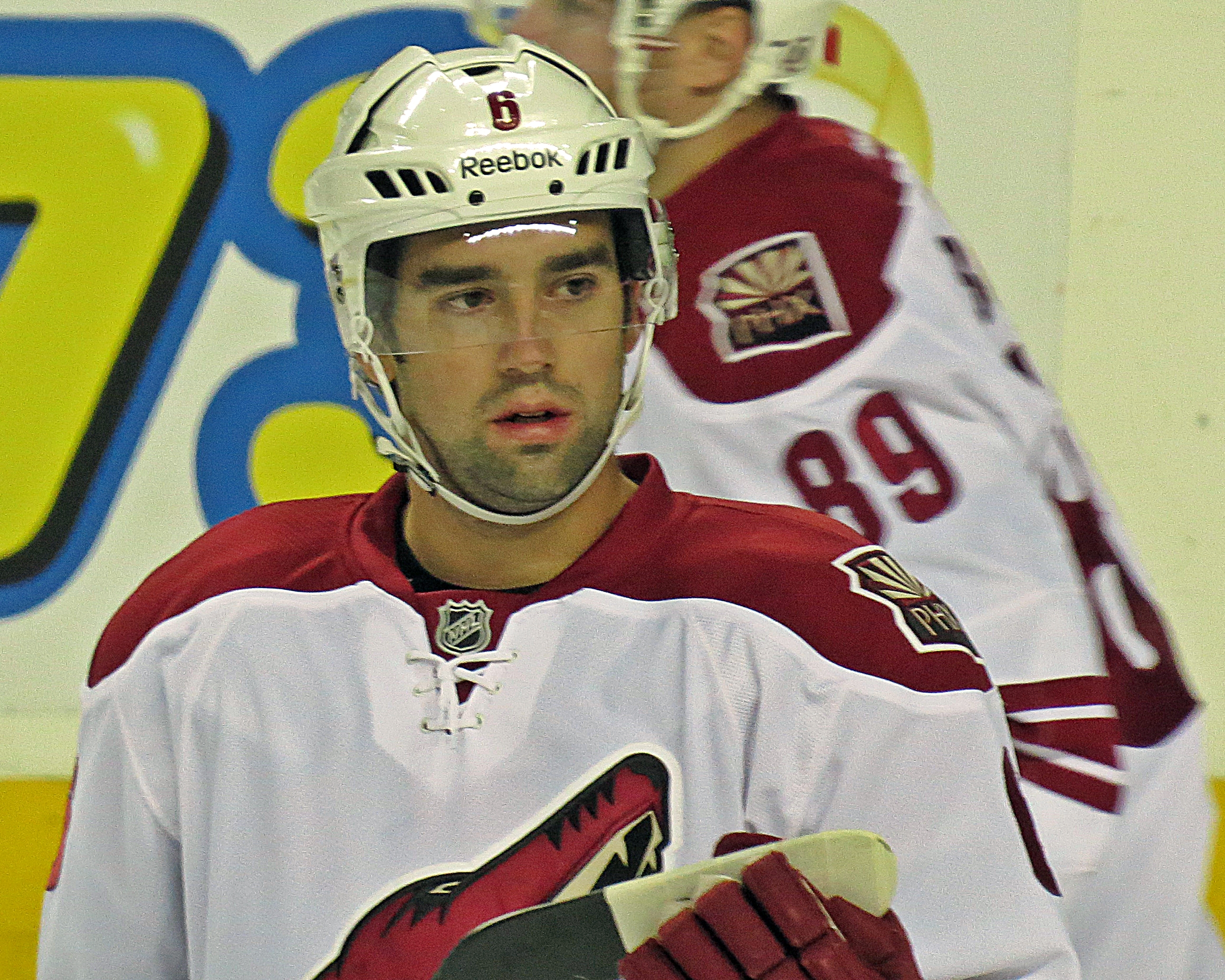 Schlemko with the Coyotes during the 2013-14 season.